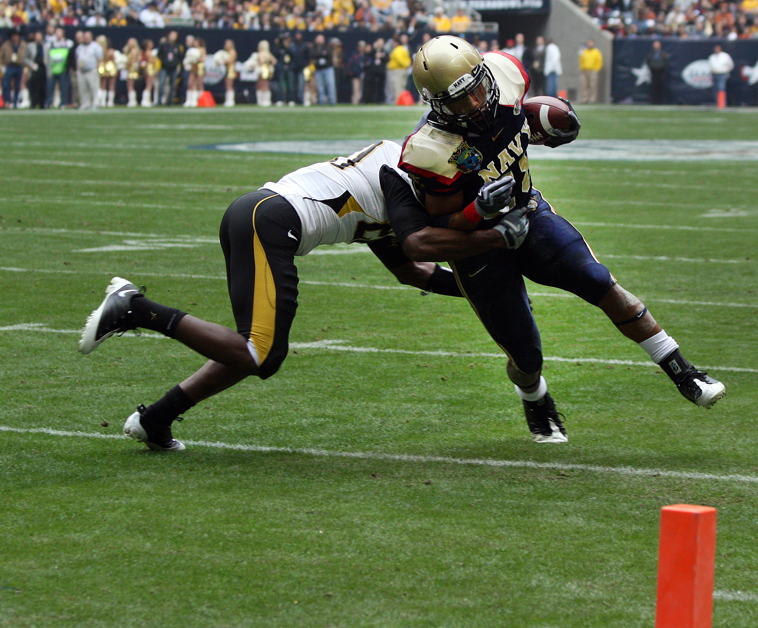 U.S. Naval Academy running back Marcus Curry carries the football for a touchdown during the 2009 Texas Bowl game against the University of Missouri at Reliant Stadium in Houston Dec. 31, 2009. The 35-13 victory over Missouri gave the Navy team a school-record 10 wins for the season. VIRIN: 091231-N-3066M-309